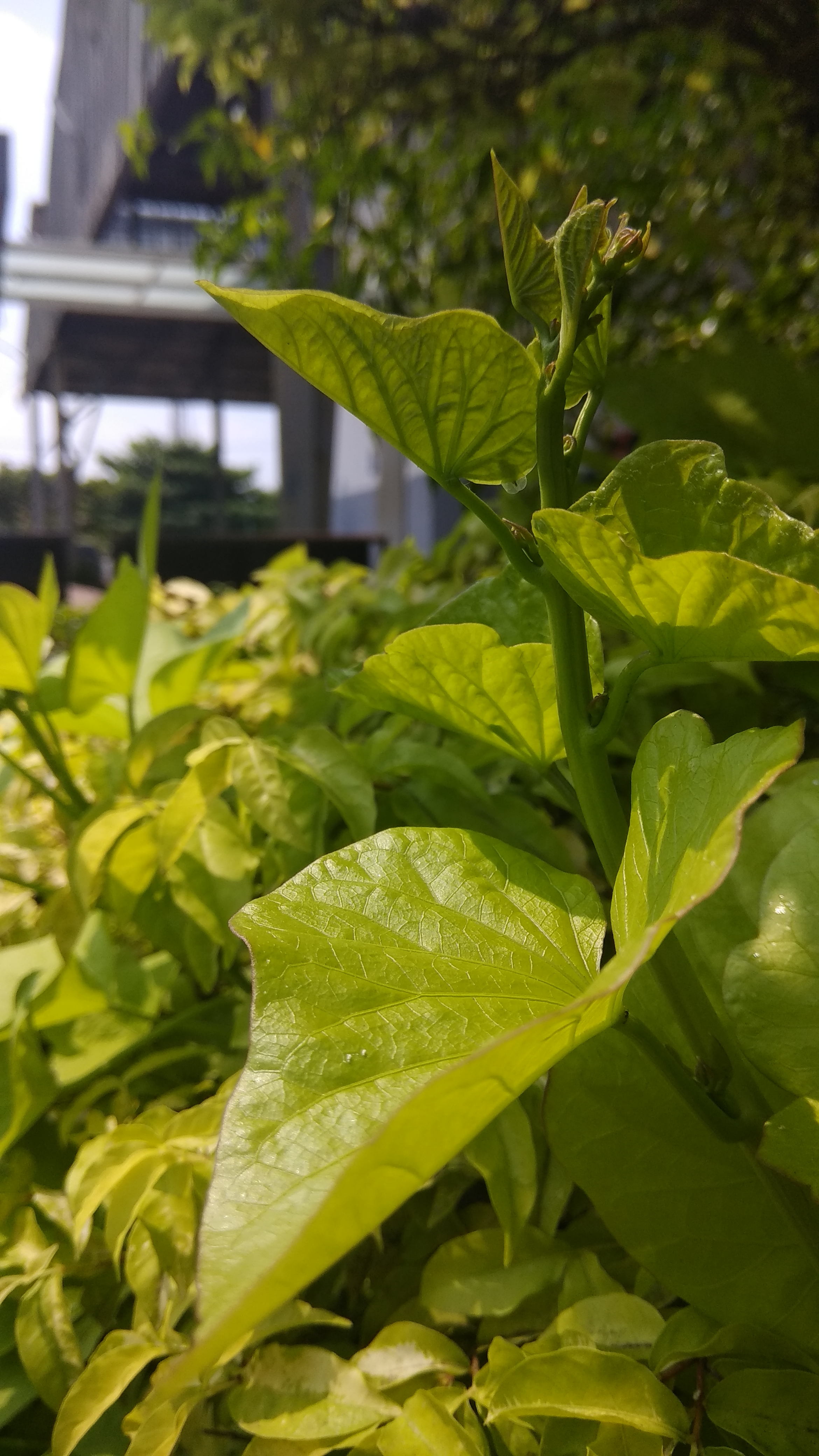 Ipomoea batatas margaritas leave